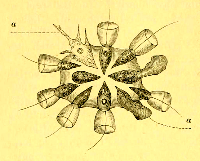 illustrated in Iliá Méchnikov (1886) Embryologische Studien an Medusen. Ein Beitrag zur Genealogie der Primitiv-organe